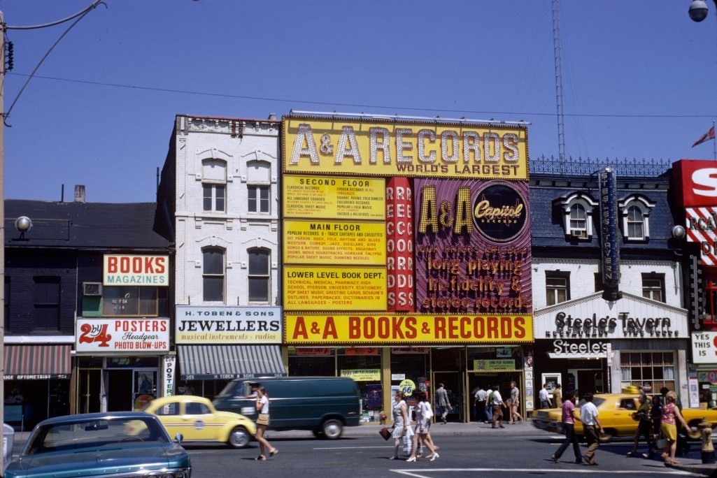 A&A Records and Steele's Tavern on Yonge Street at Elm Street, circa 1975. Toronto, Ontario, Canada.